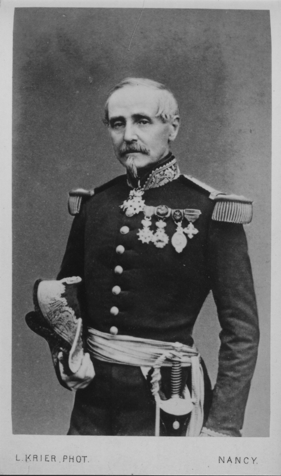 Picture of Isidore Didion